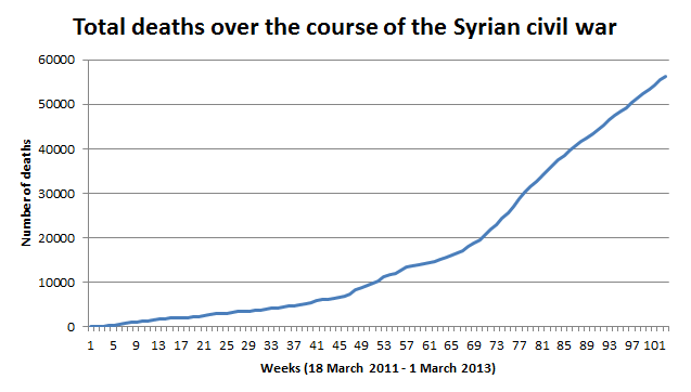 Total deaths over time as a result of the Syrian civil war, based on data from the Syrian National Council [1].